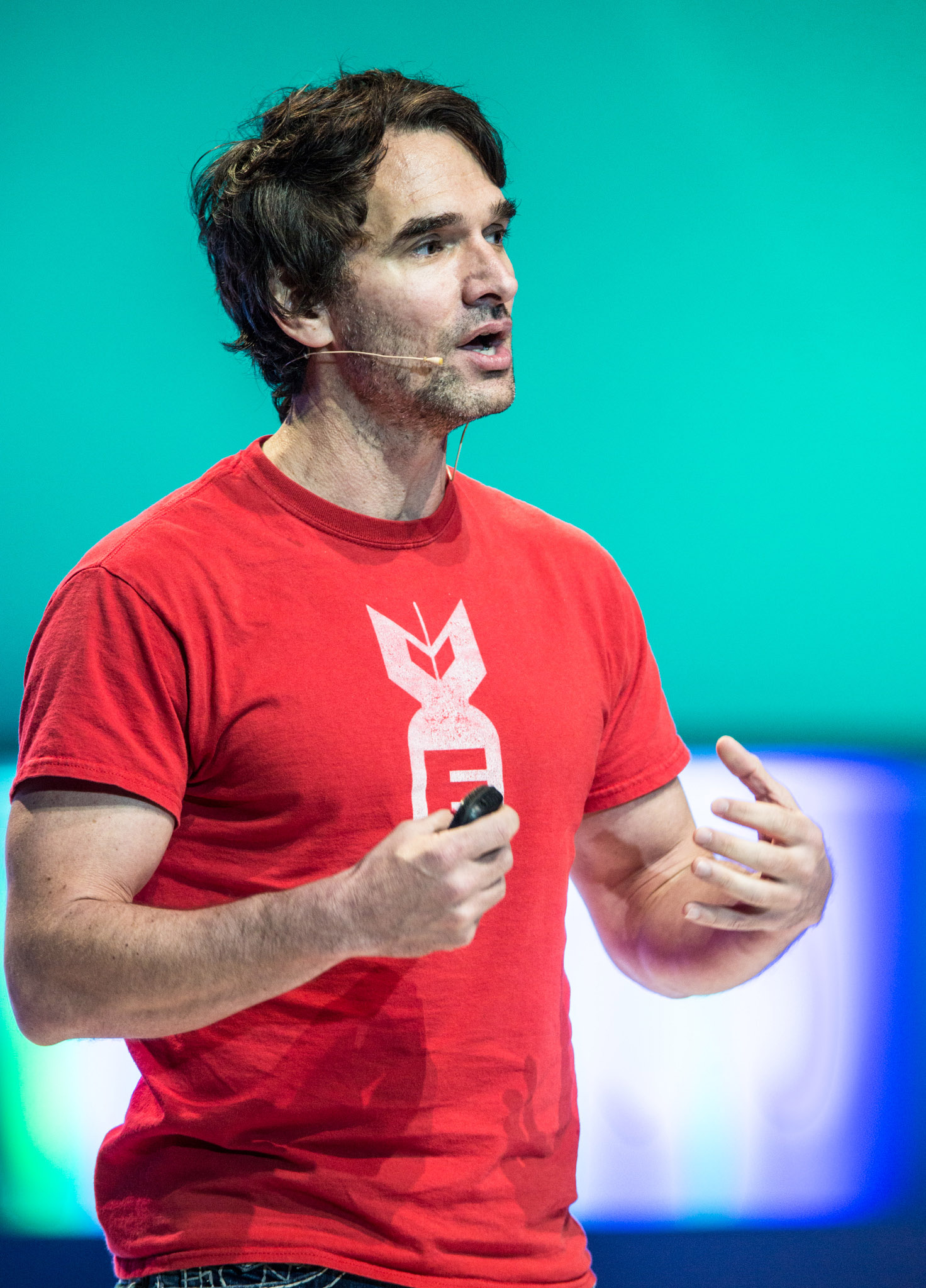 Todd Sampson presenting at the Melbourne Convention and Exhibition Centre for Open Space on the 20th of February 2014